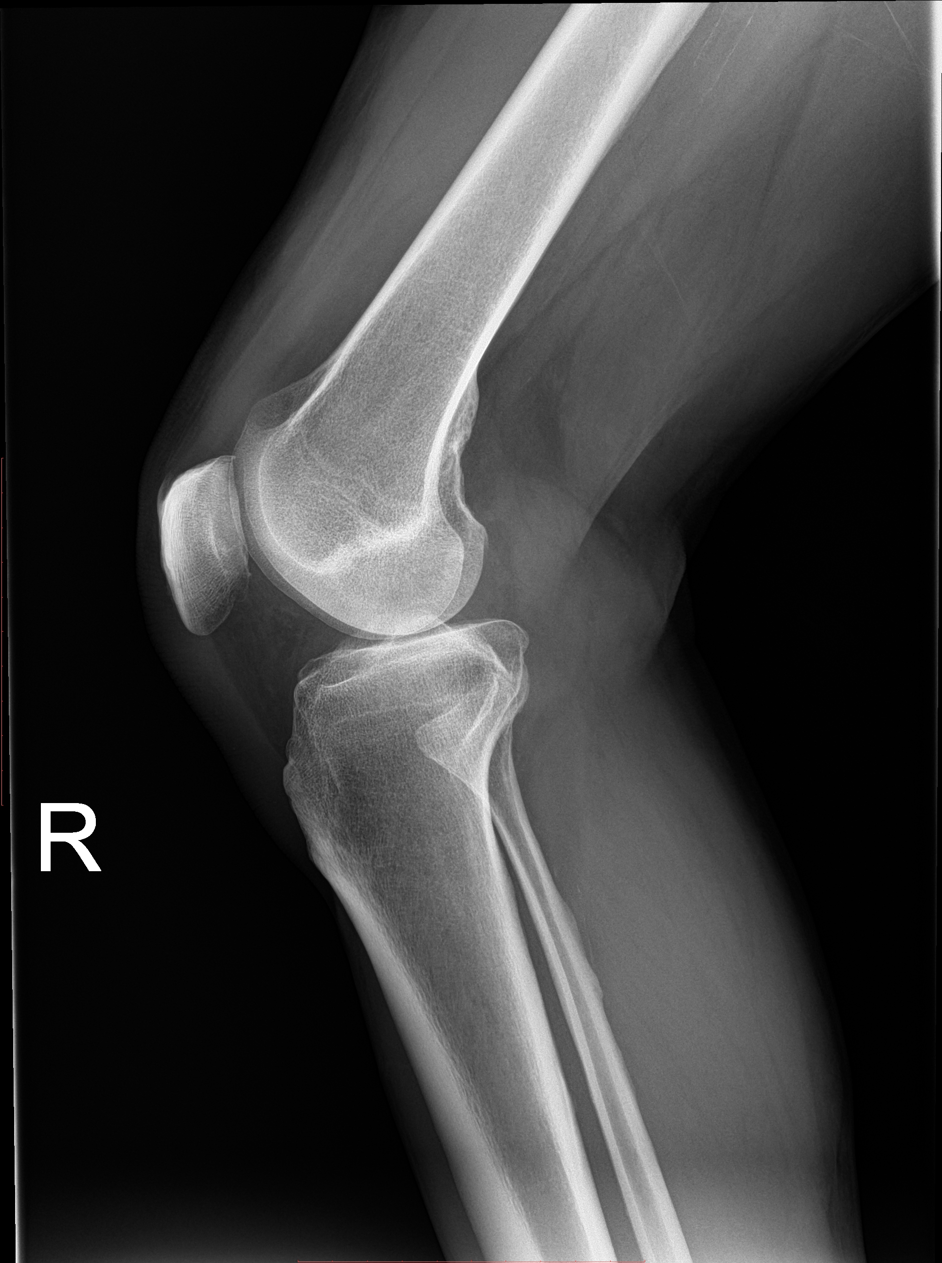 Plain radiograph of the right knee (Samsung Healthcare DGR-RN5N22/WR)